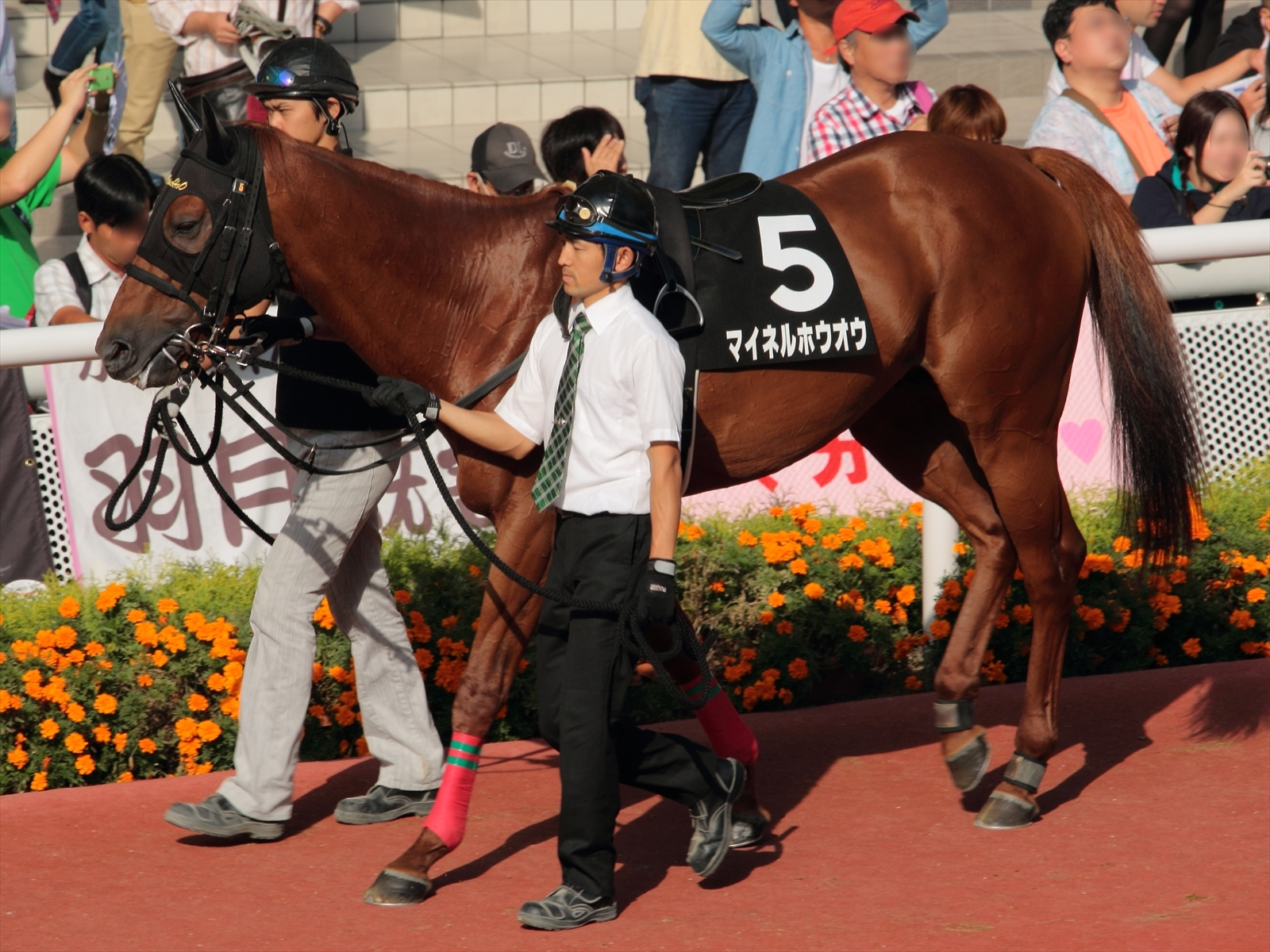 Meiner Ho O (Racehorse of Japan).